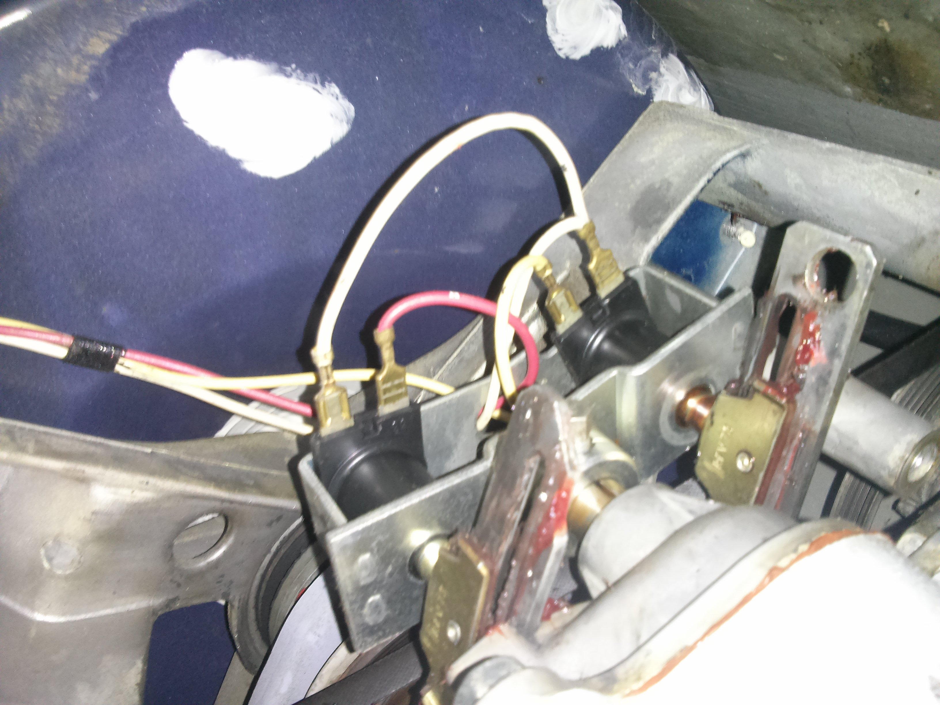 Wig wag solenoid in a 1980s Inglis washing machine.